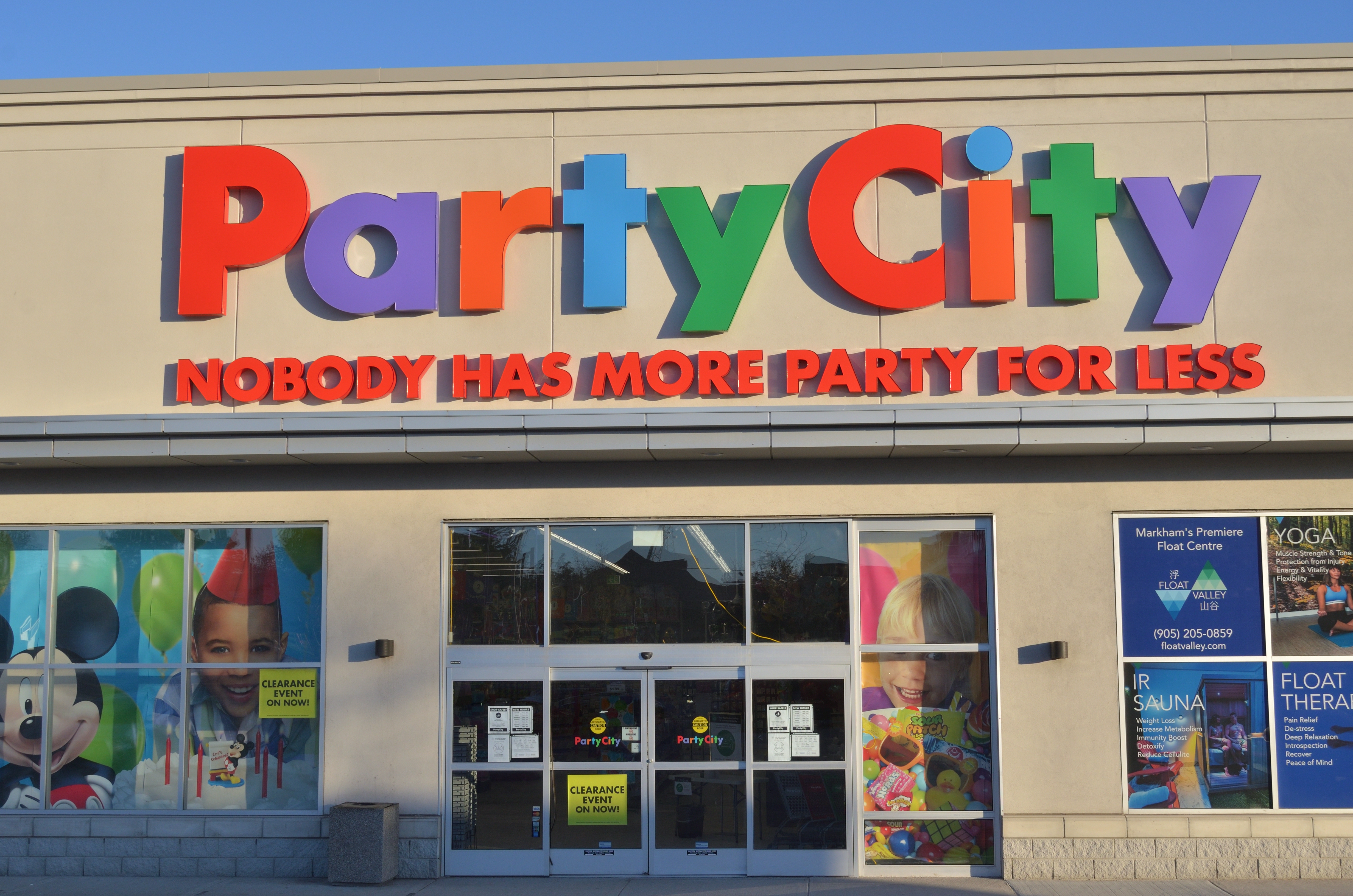 Party City - Address: 5261 Hwy 7, Markham, ON L3P 1B8